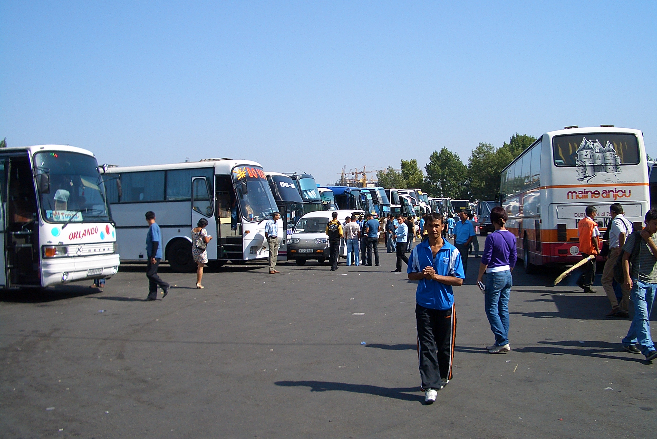 At Almaty's Sayran Bus Terminal one can see buses originally from all over Europe, now owned by various Kazakh intercity bus line companies